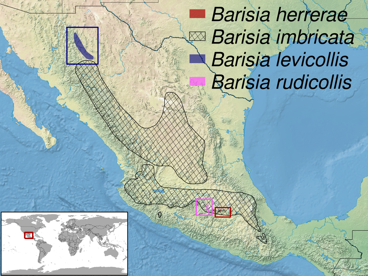 geographic distribution of the genus Barisia. Included species: Barisia herrerae Barisia imbricata Barisia levicollis Barisia rudicollis